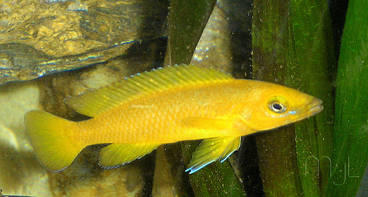 Neolamprologus Leleupi Tanganjika